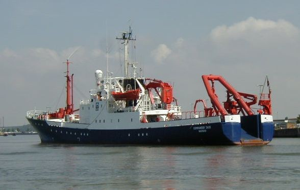 "KOMMANDOR JACK" (ex. "VALDIVIA"), IMO No. 5380376. Research vessel.